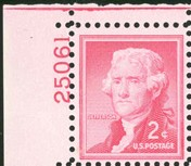 Silkote paper US SC#1033a: Liberty Series 2c Jefferson